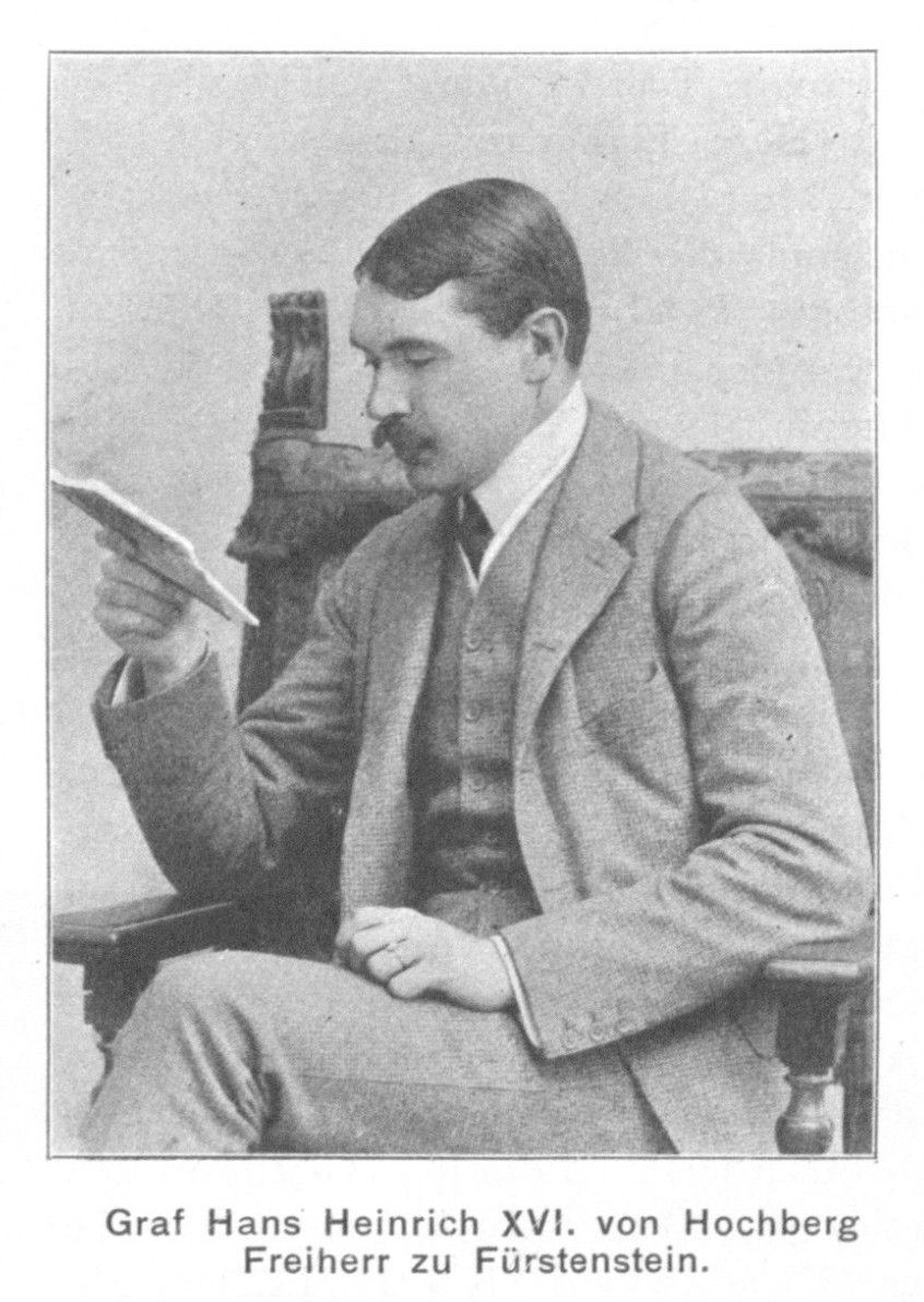 Hans Heinrich XVI. von Hochberg (1874-1933), German farmer and agricultural official.